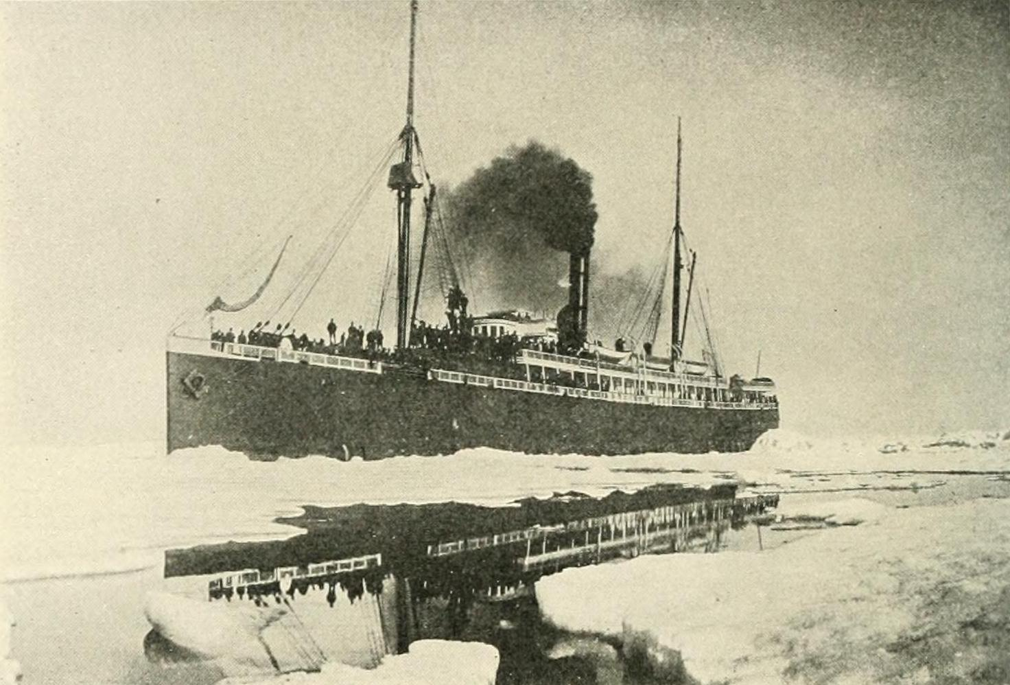 The SS Senator in ice jam in Bering Sea, June 15, 1908